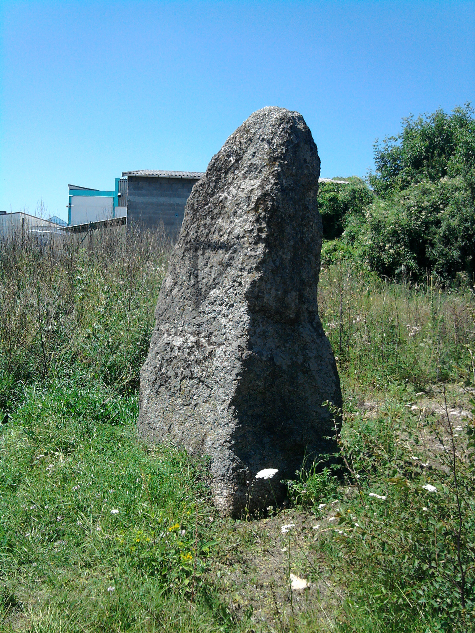 The menhir is located in the technologic park of La Pardieu (Aubière), in the avenue of Nicolas Bourbaki's group.